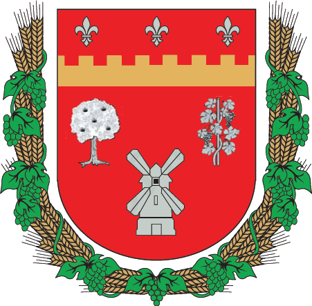 Coat of Arms of Bоlgrаdskyj Raion